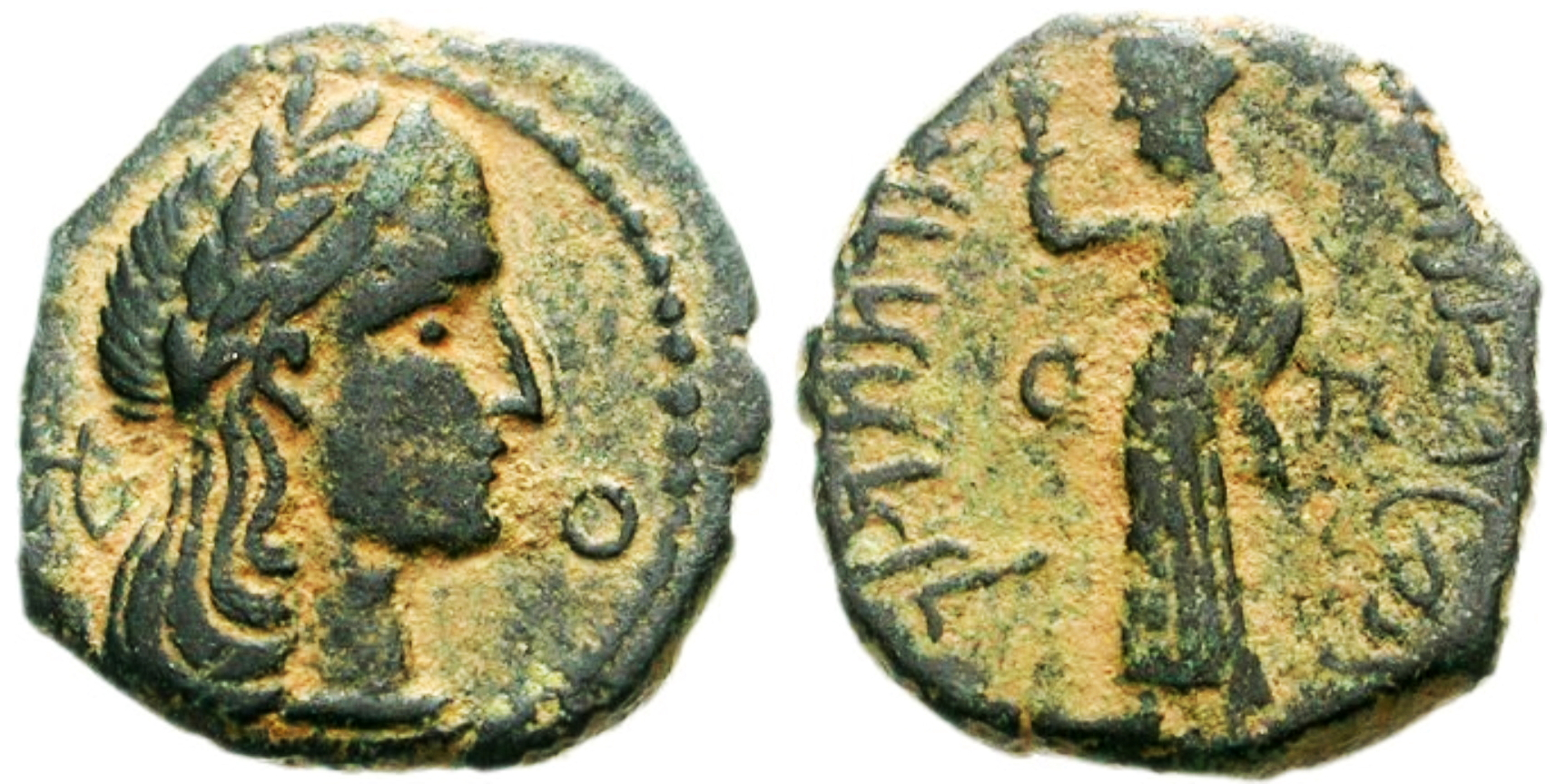 Bronze coin of Aretas IV from 3 BC (18 mm, 5.52 g)